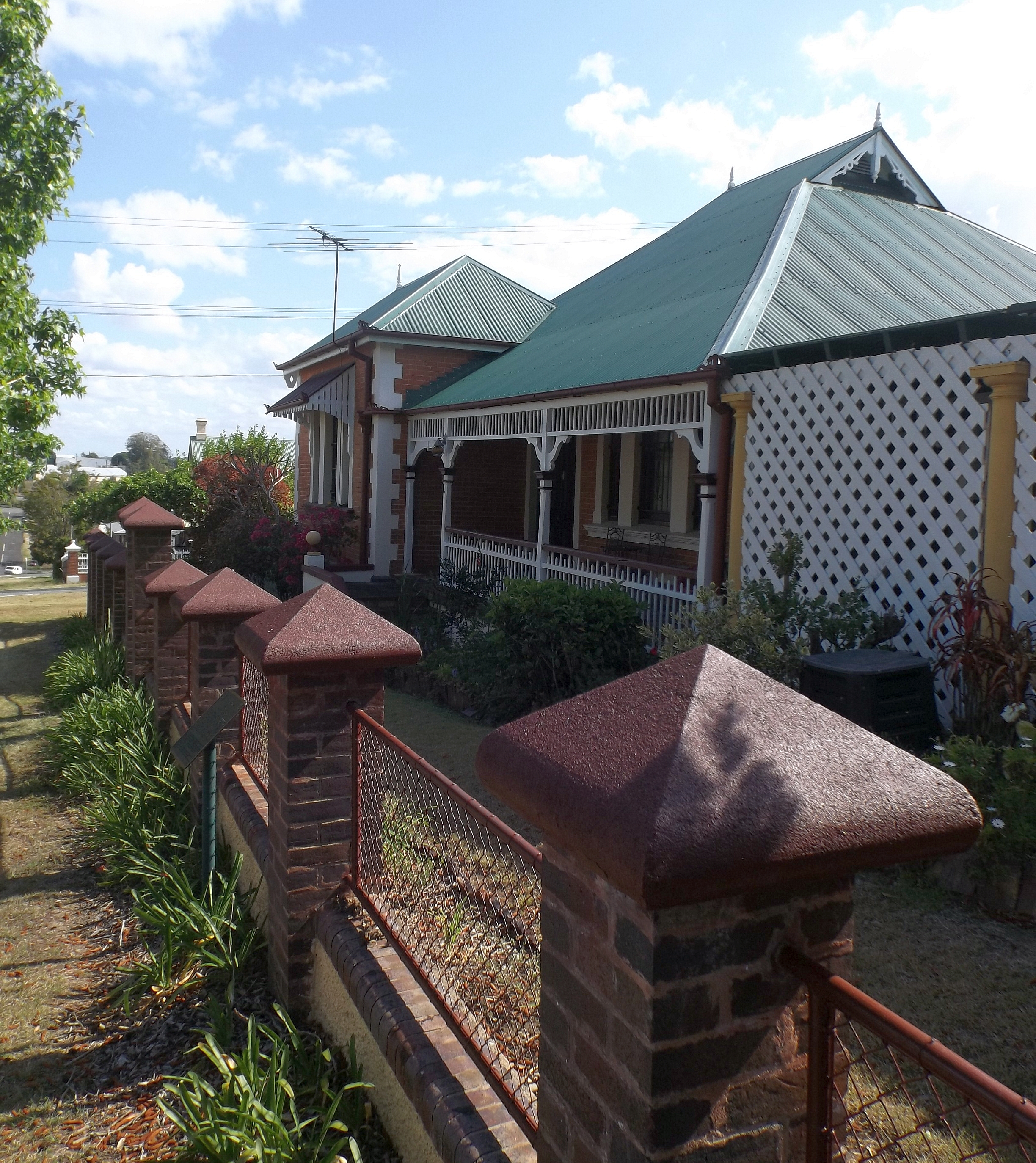 Photo of To-Me-Ree residence in Ipswich, Queensland, Australia.